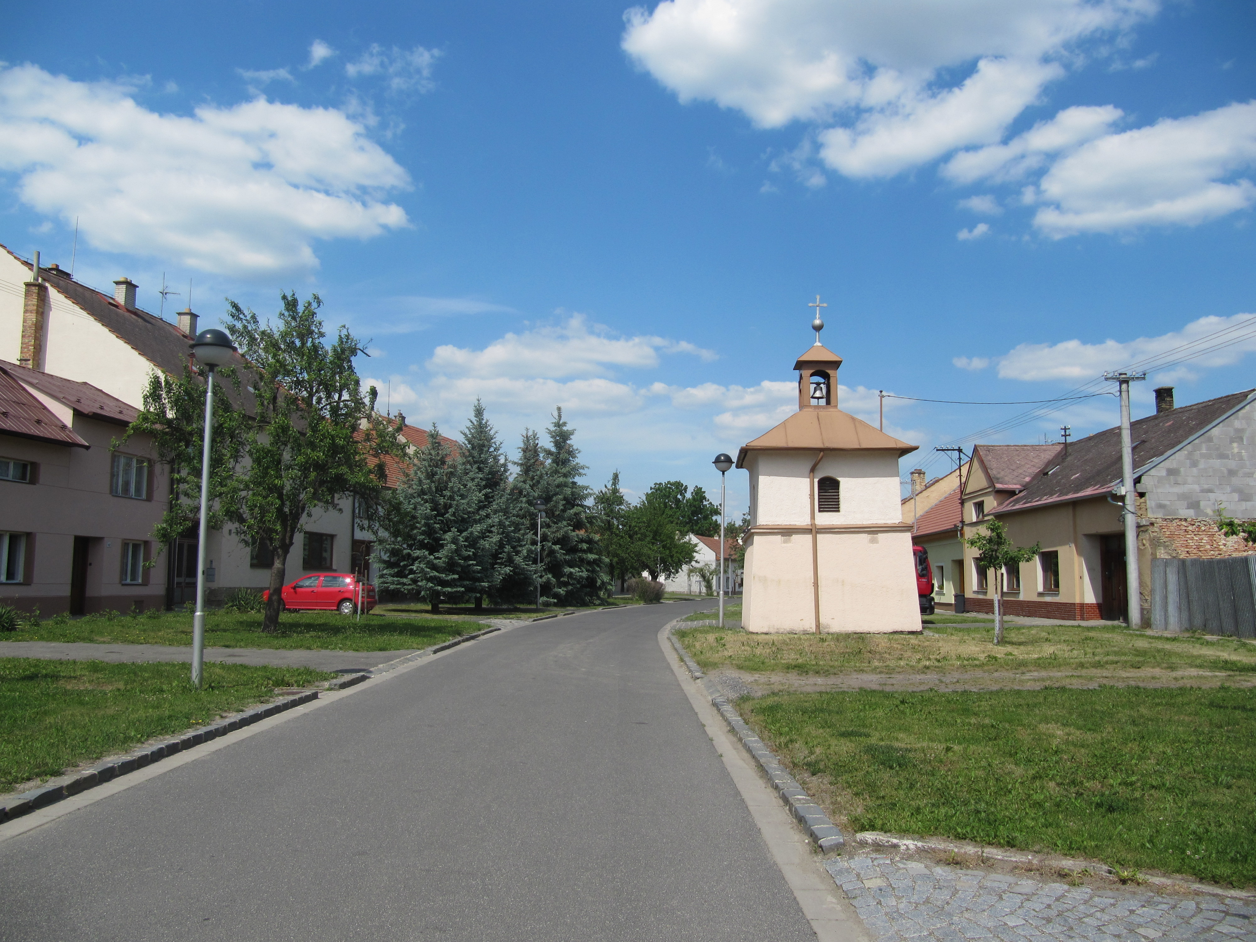 Kroměříž, Czech Republic, part Bílany. Common with belfry.